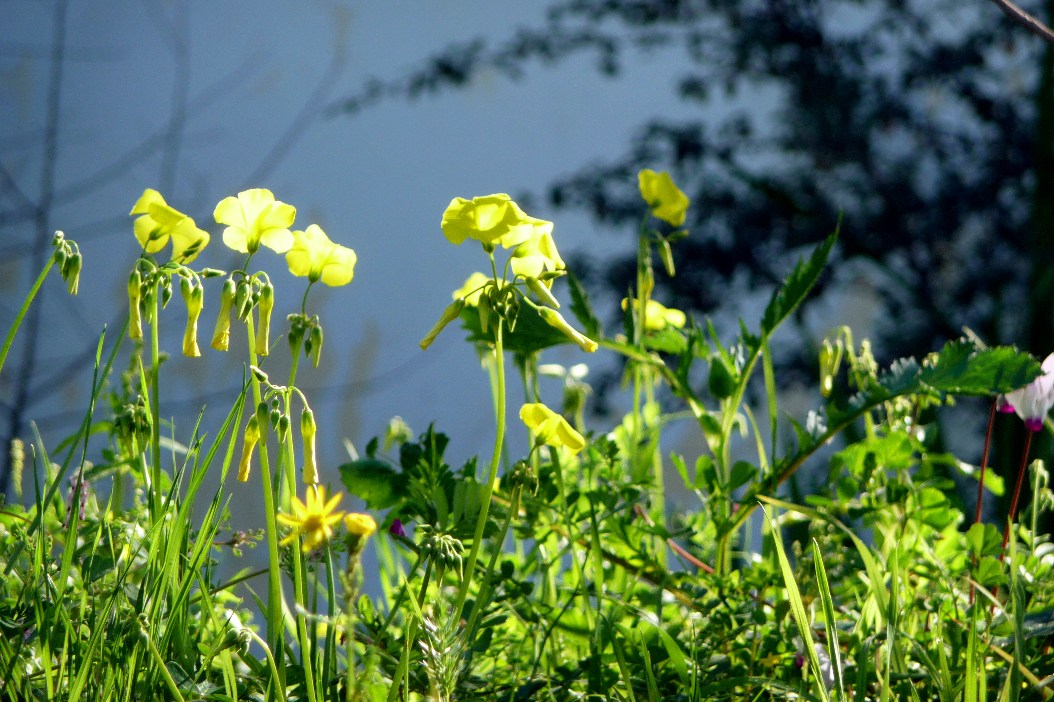 IBet Oren